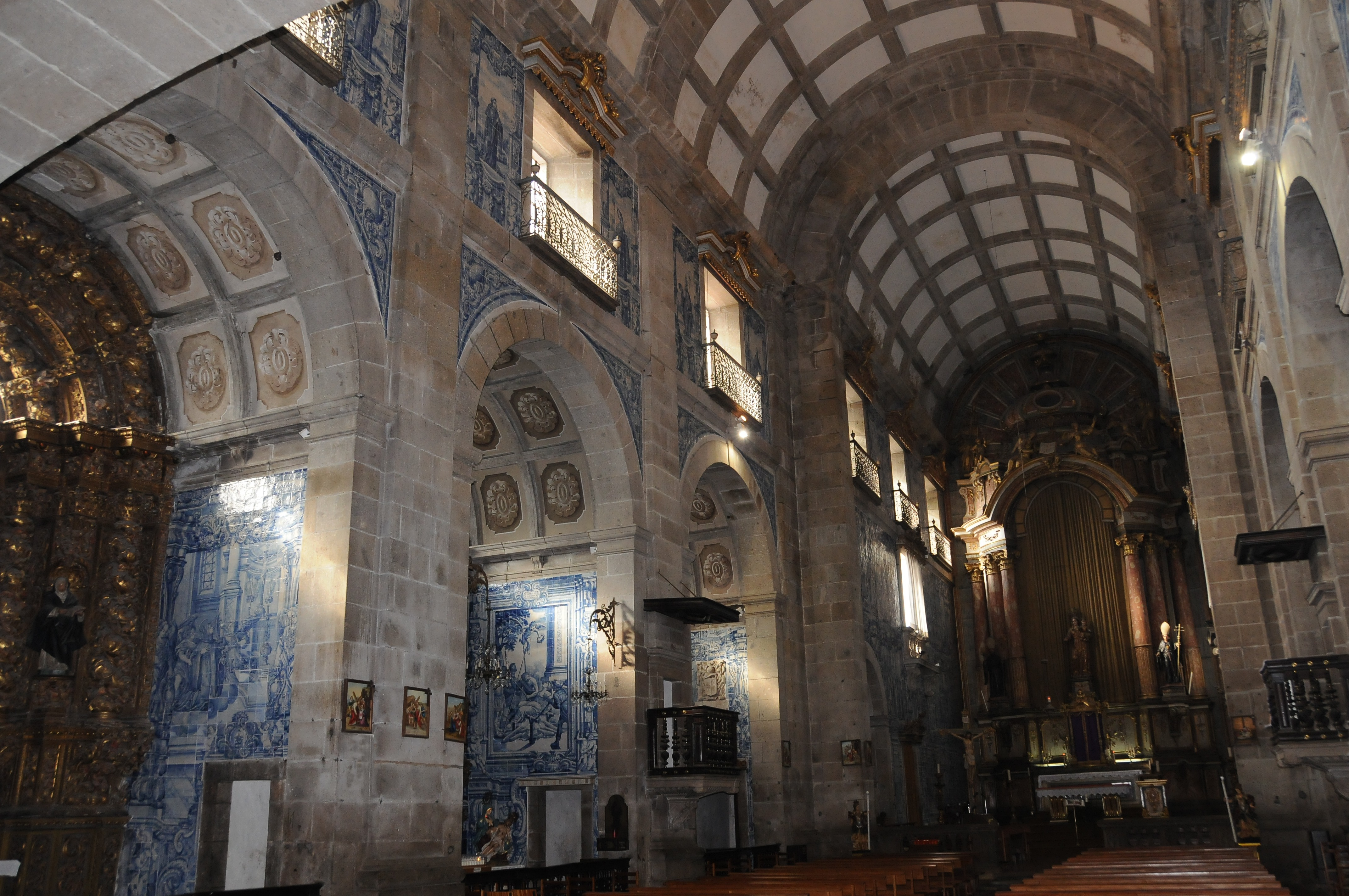 Interior of Populo Church, Braga, Portugal.